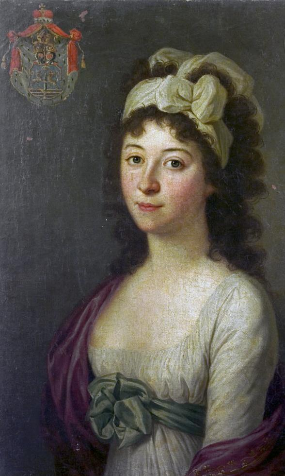 Anna Luisa Keglevich de Buzin, princess Odescalchi